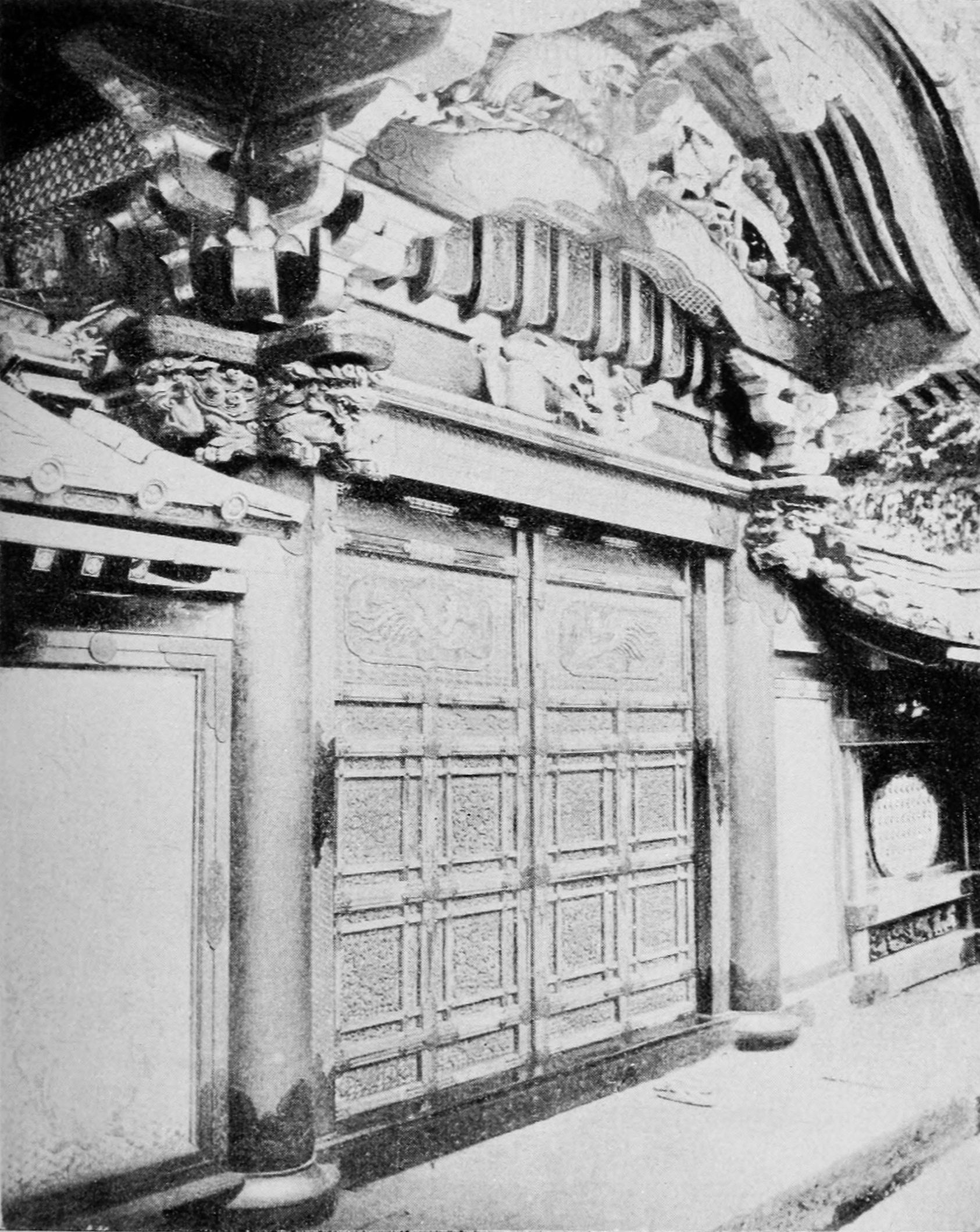 Inner gate leading to the tomb of Shogun Tokugawa in Shiba Tokyo